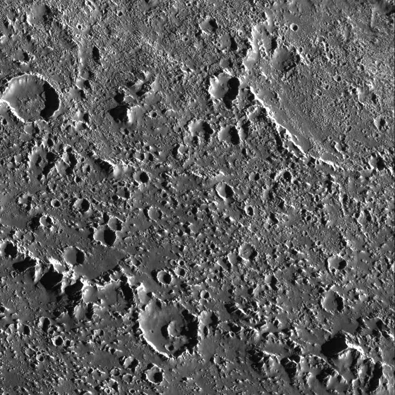 Textured Terrain in Callisto's Asgard Basin original image caption: This fascinating region of Jupiter's icy moon, Callisto, shows the transition from the inner part of an enormous impact basin, Asgard, to the outer "surrounding plains." Small, bright, fine textured, closely spaced bumps appear throughout the inner part of the basin (top of image) and create a more fine textured appearance than that seen on many of the other inter-crater plains on Callisto. At low resolution, these icy bumps make Asgard's center brighter than the surrounding terrain. What caused the bumps to form is still unknown, but they are associated clearly with the impact that formed Asgard. The ridge that cuts diagonally across the lower left corner is one of many giant concentric rings that extend for hundreds of kilometers outside Asgard's center. Exterior to the ring (lower left corner), Callisto's surface changes significantly. Still peppered with craters, the number of icy bumps decreases while their average size increases. The fine texture is not as visible in the middle of the image. One explanation is that material from raised features (such as the ridge) may slide down slope and cover small scale features. Such images of Callisto help us understand the dynamics of giant impacts into icy surfaces, and how the large structures change with time. North is to the top of the picture. The image, centered at 27.1 degrees north latitude and 142.3 degrees west longitude, covers an area approximately 80 kilometers (50 miles) by 90 kilometers (55 miles). The resolution is about 90 meters (295 feet) per picture element. The image was taken on September 17th, 1997 at a range of 9200 kilometers (5700 miles) by the Solid State Imaging (SSI) system on NASA's Galileo spacecraft during its tenth orbit of Jupiter.